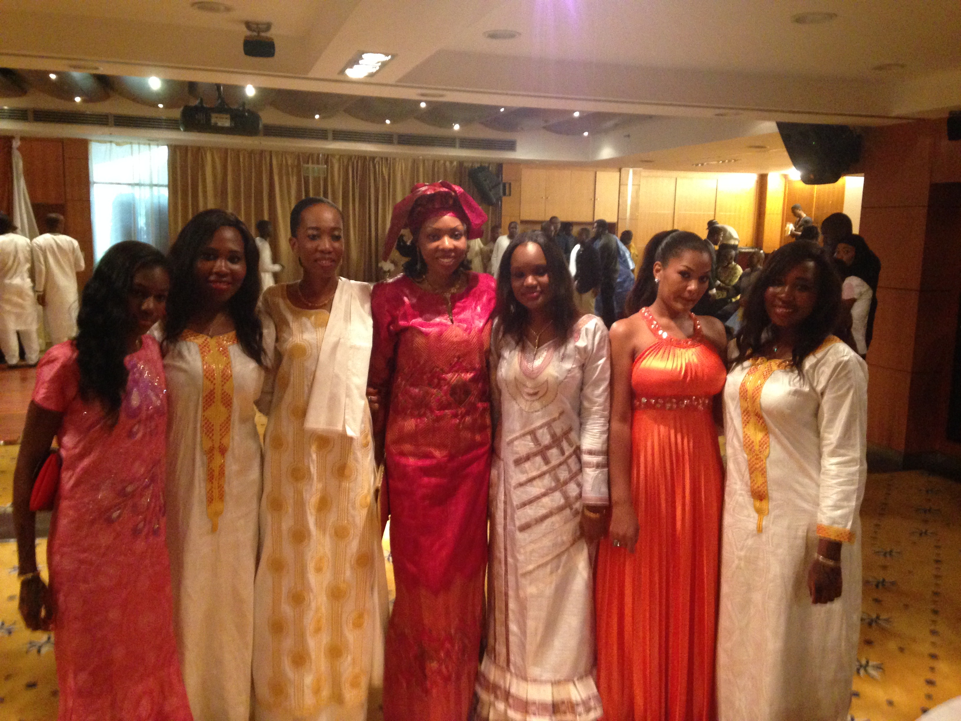 Civil Malian wedding